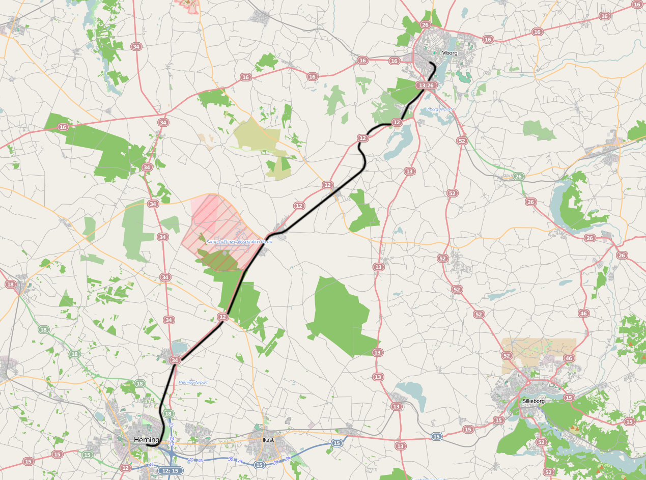 Railway line Herning - Viborg